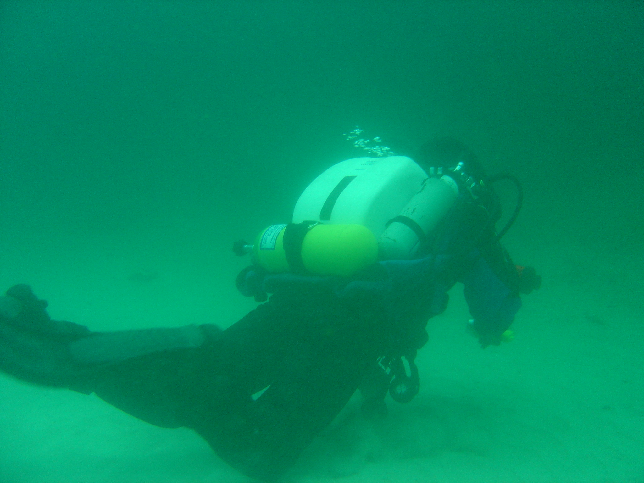 Scuba diver with Draeger Dolphin semi-closed circuit rebreather